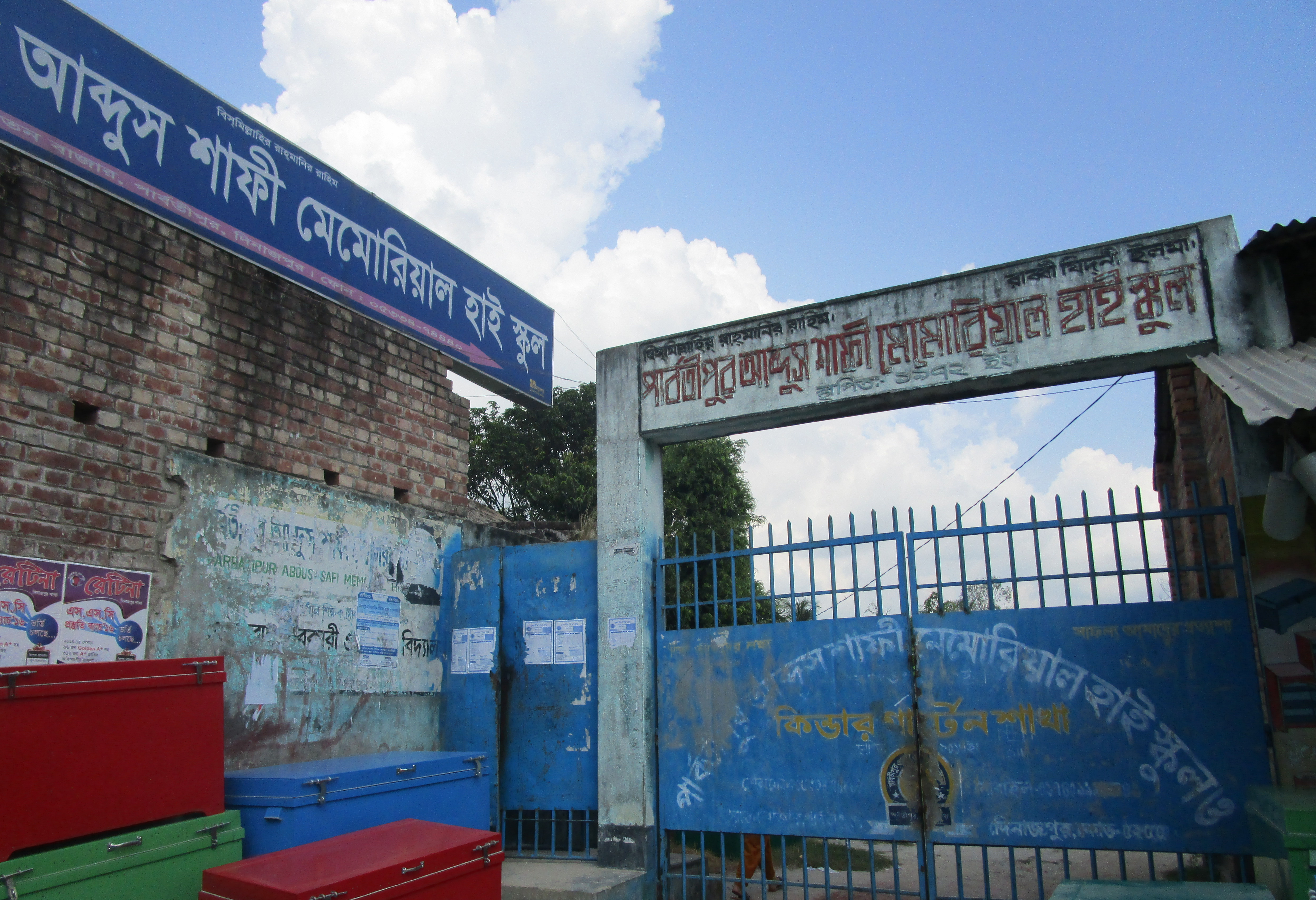 The Main Gate of Abdus Shafi Memorial High School, Parbatipur.